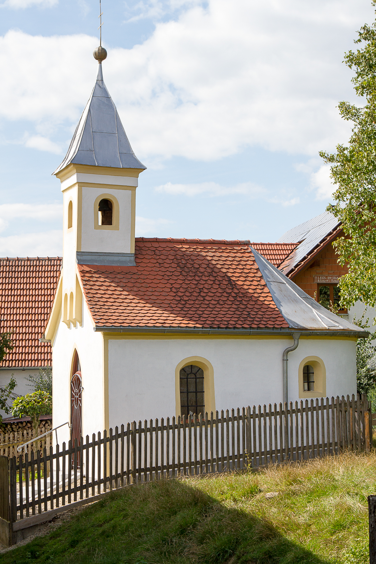 This is a photograph of an architectural monument.